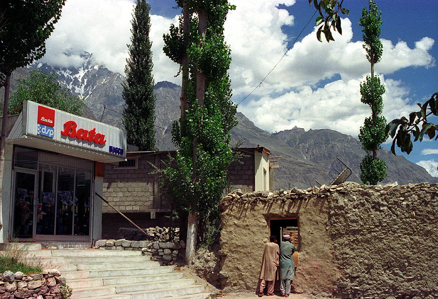 A shoe store at Nagar, Northern Area, Pakistan